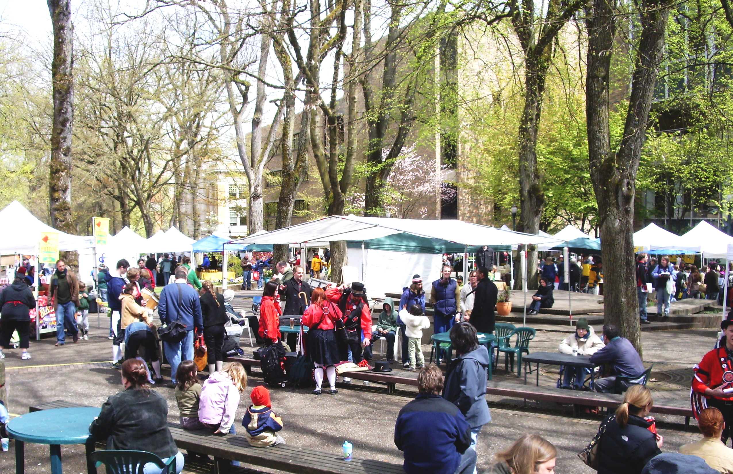 Portland Farmers Market near the center looking northeast in the midst of Portland State University's campus. The poor attendance this day was partially due to unusual unseasonably cold weather with light snow flurries.